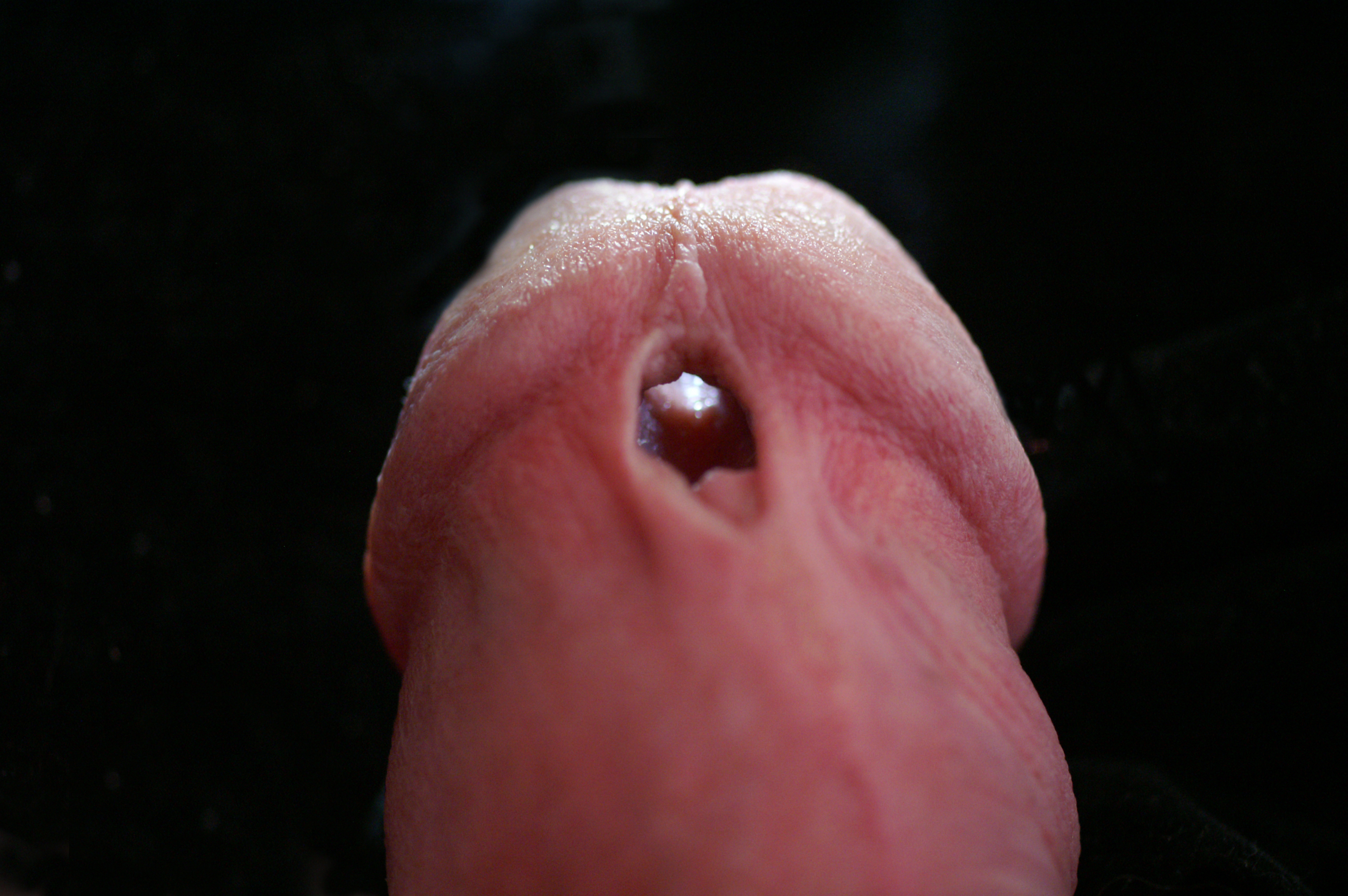 Prince Albert piercing without ring